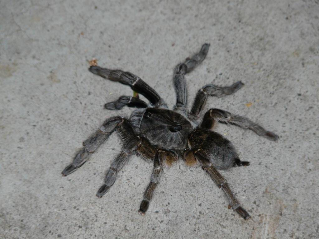 Ceratogyrus dolichocephalus